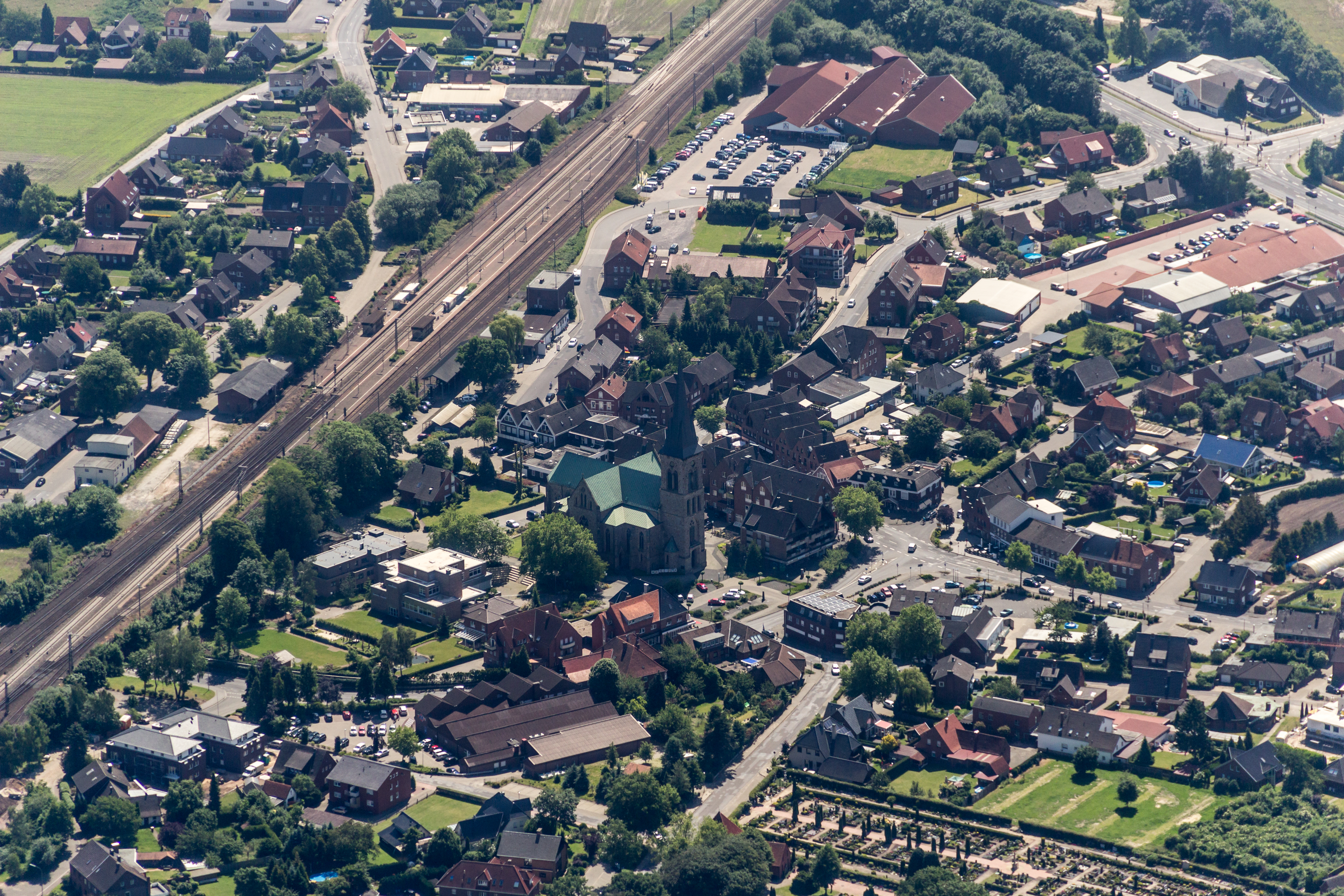 St Cyriac's Church, Salzbergen, Lower Saxony, Germany